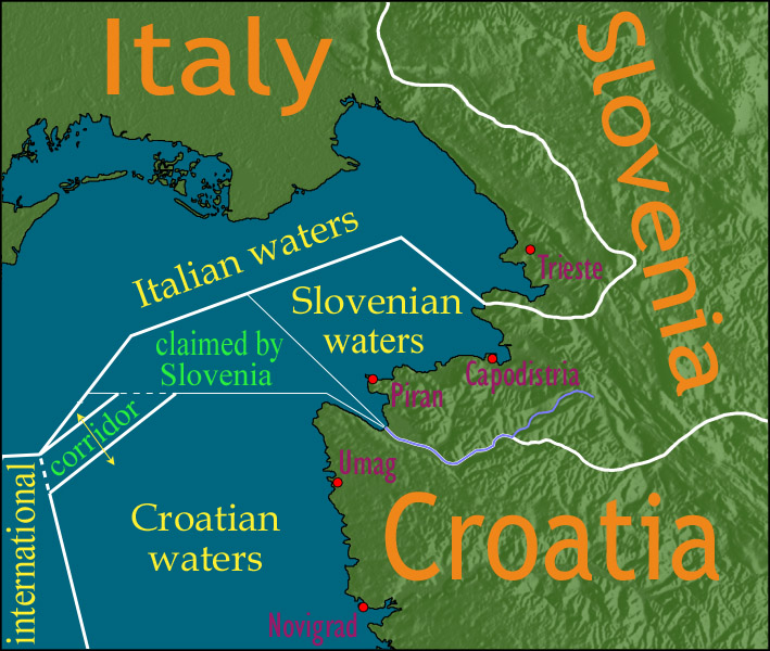 Map showing a diplomatic dispute resulting from Slovenia's desire to obtain a direct corridor from its own territorial waters to international waters, to avoid the necessity of Slovenian ships having to sail through the territorial waters of any other country to get to the high seas. Slovenia's only seacoast is in the Bay of Piran / Gulf of Trieste (as shown in this map), and its only commercial seaport is Capodistria / Koper (the eastern of the two red dots in Slovenia on this map), while Italy and Croatia both have long seacoasts outside the area shown in this map. Slovenia's claim to the area labelled with green text, and the existence of a corridor to international waters, would have been allowed by Croatia under the Drnovšek-Račan agreement, but this was never ratified by either countries' parliaments. This is an English version of image Bild:Grenzstreit-Bucht-von-Piran.jpg, created using image Image:BorderDispute_BayOfPiran_blank.png. Raw Adobe Photoshop PSD files (with all text on different type layers) are available on request.